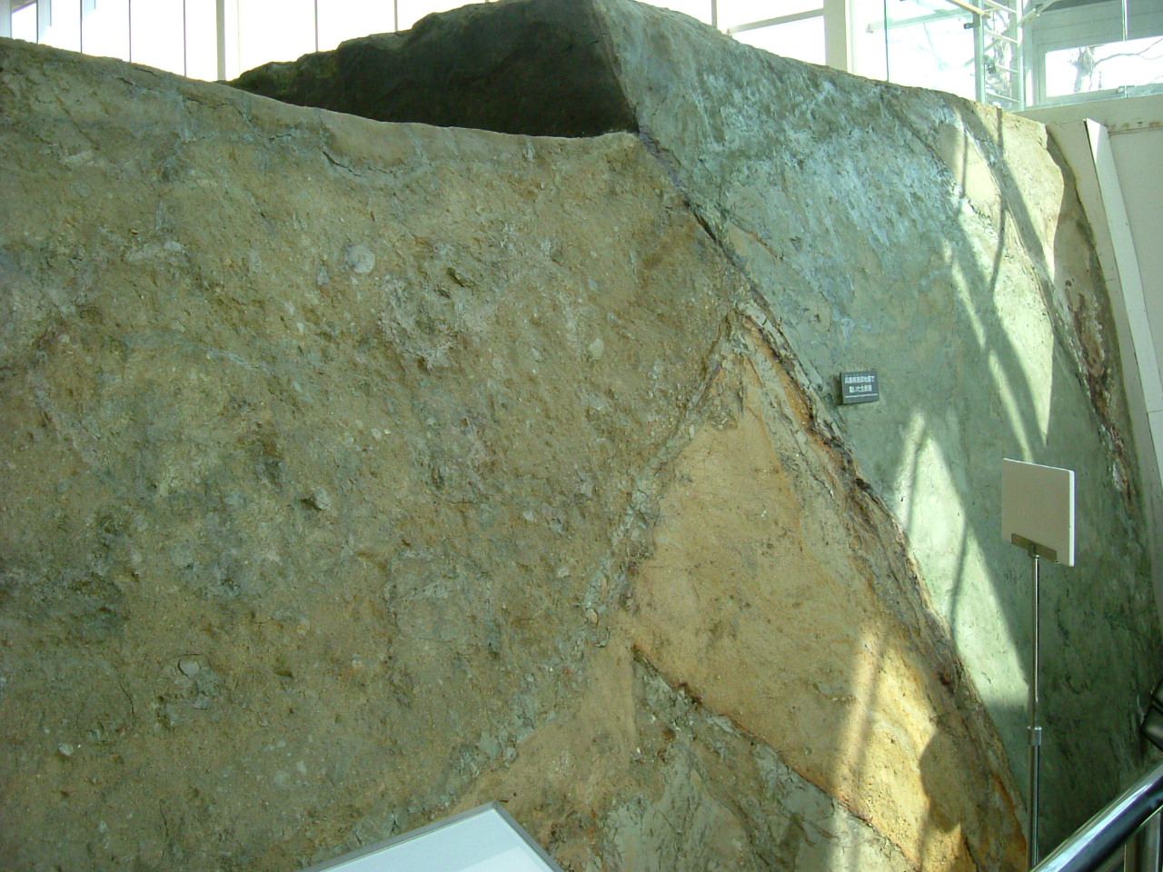 横から見た野島断層の地下断面。兵庫県南部地震で動いた主断層。国指定天然記念物野島断層。A section of the Nojima Fault, responsible for the 1995 Great Hanshin earthquake, preserved at Nojima Fault Preservation Museum, Awaji Island, Japan.